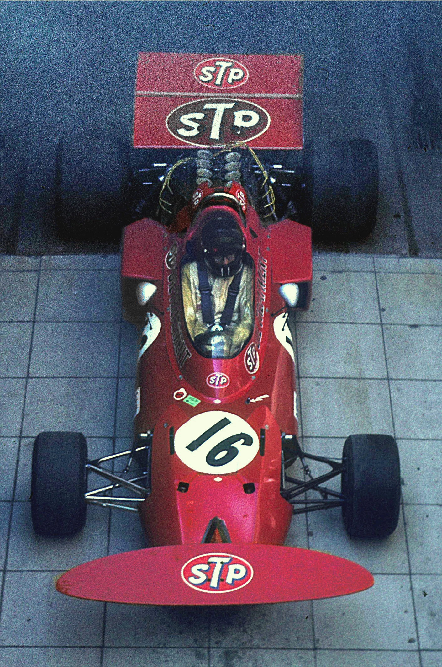 Andrea de Adamich in the drive from the paddock to the start place. The carriage: March 711 with Alfa Romeo engine